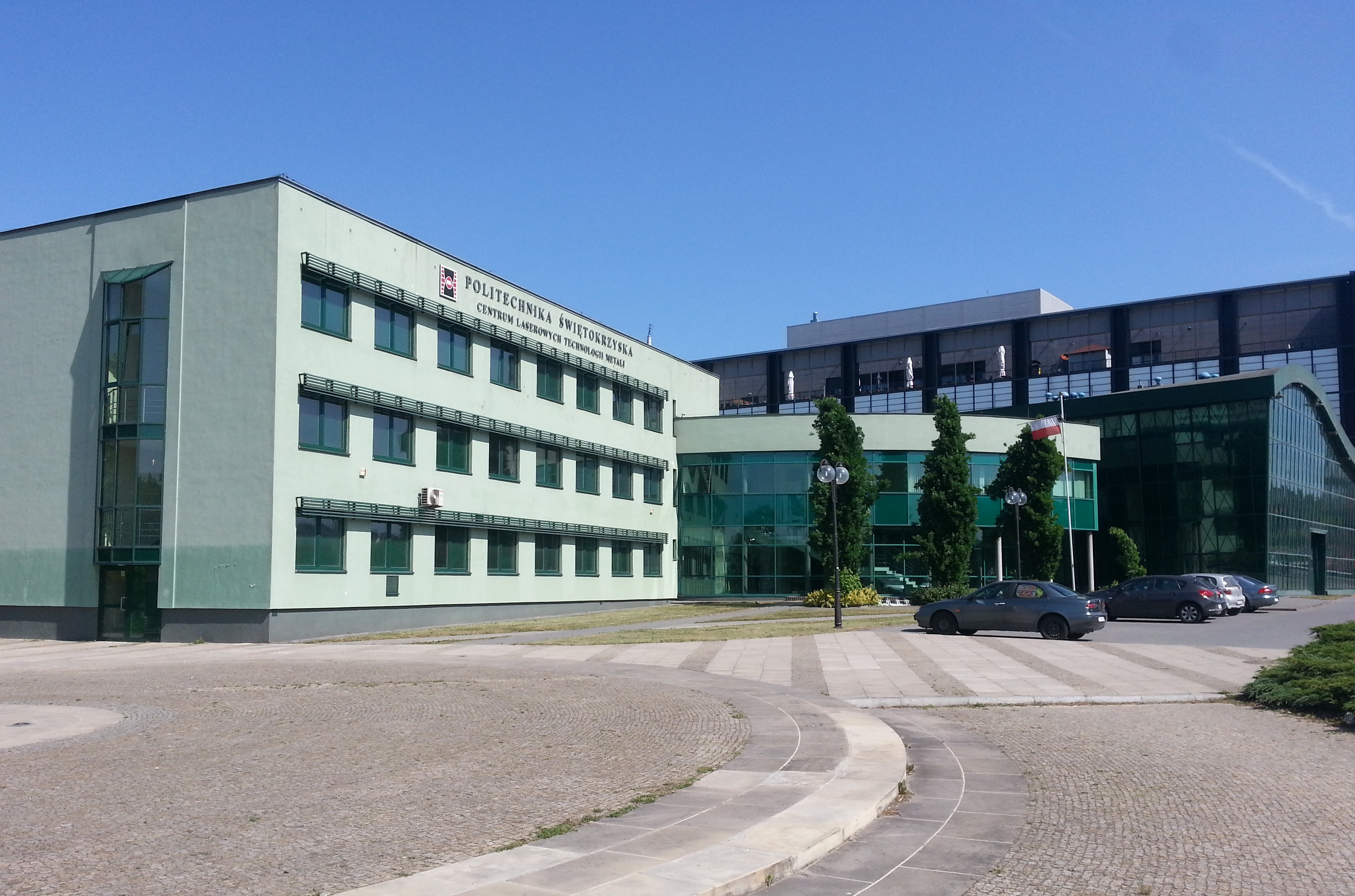 Centre for Laser Technologies of Metals